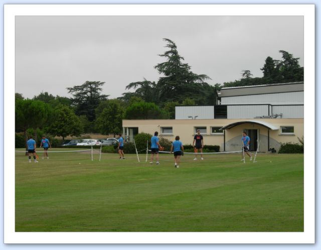 Castres